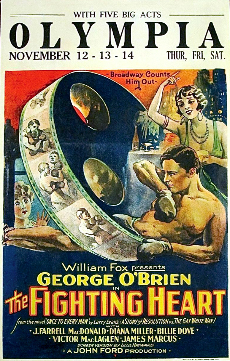 Poster from the 1925 film The Fighting Heart. Renewal searches were done in films and in artwork for the years 1952 and 1953. There were no results for the title; this film is said to be lost. There's no evidence of continuing copyright on this material.